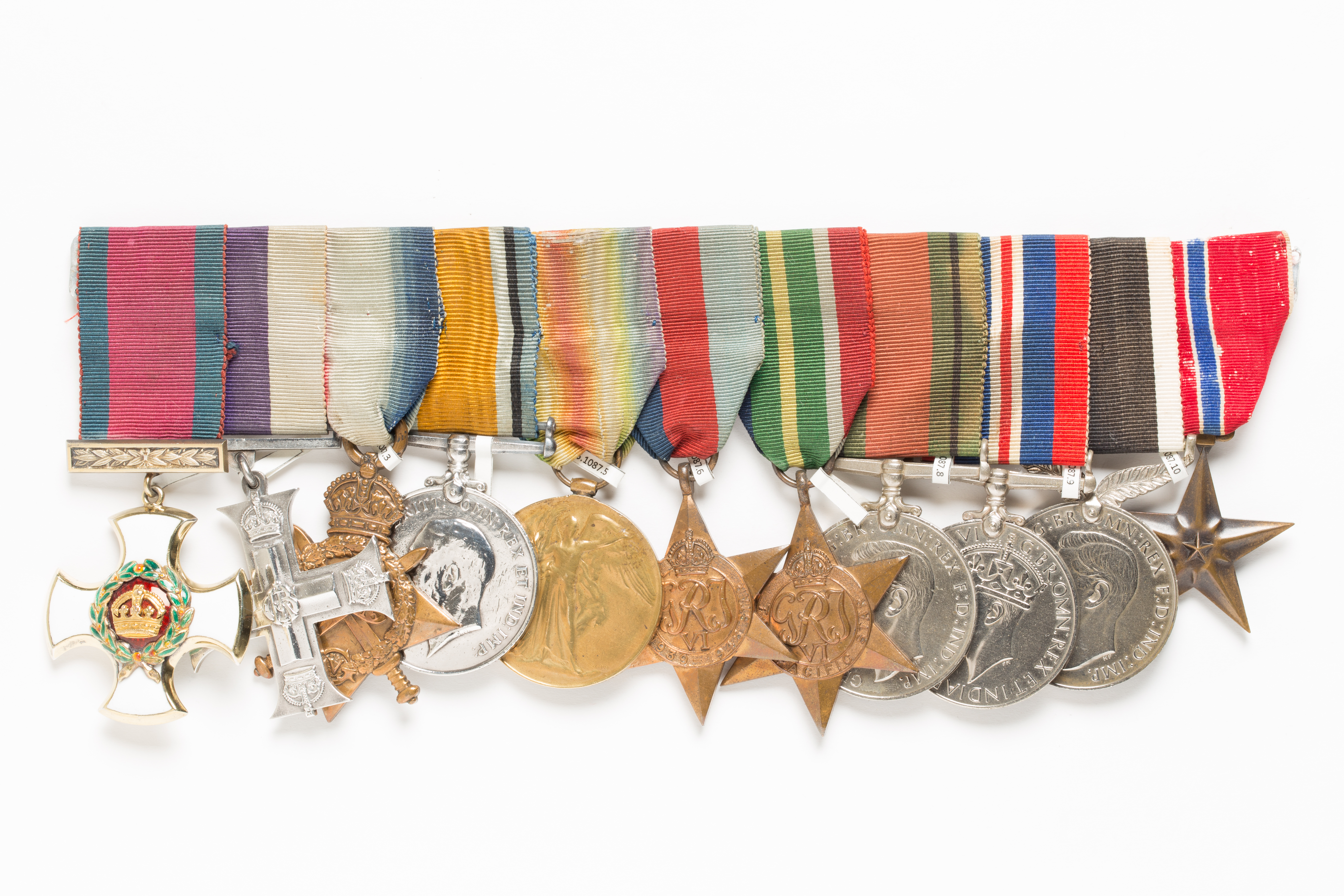 Military Cross (MC) awarded to Lt Col Francis William Voelcker, WW2 silver cross medal, 44mm width, ring suspension from plain bar, with ribbon obverse- ornamental silver cross with Royal Cypher in centre, crowns at the ends reverse- ribbon- grosgrain ribbon, 32mm wide, three vertical stripes of white, purple, white.